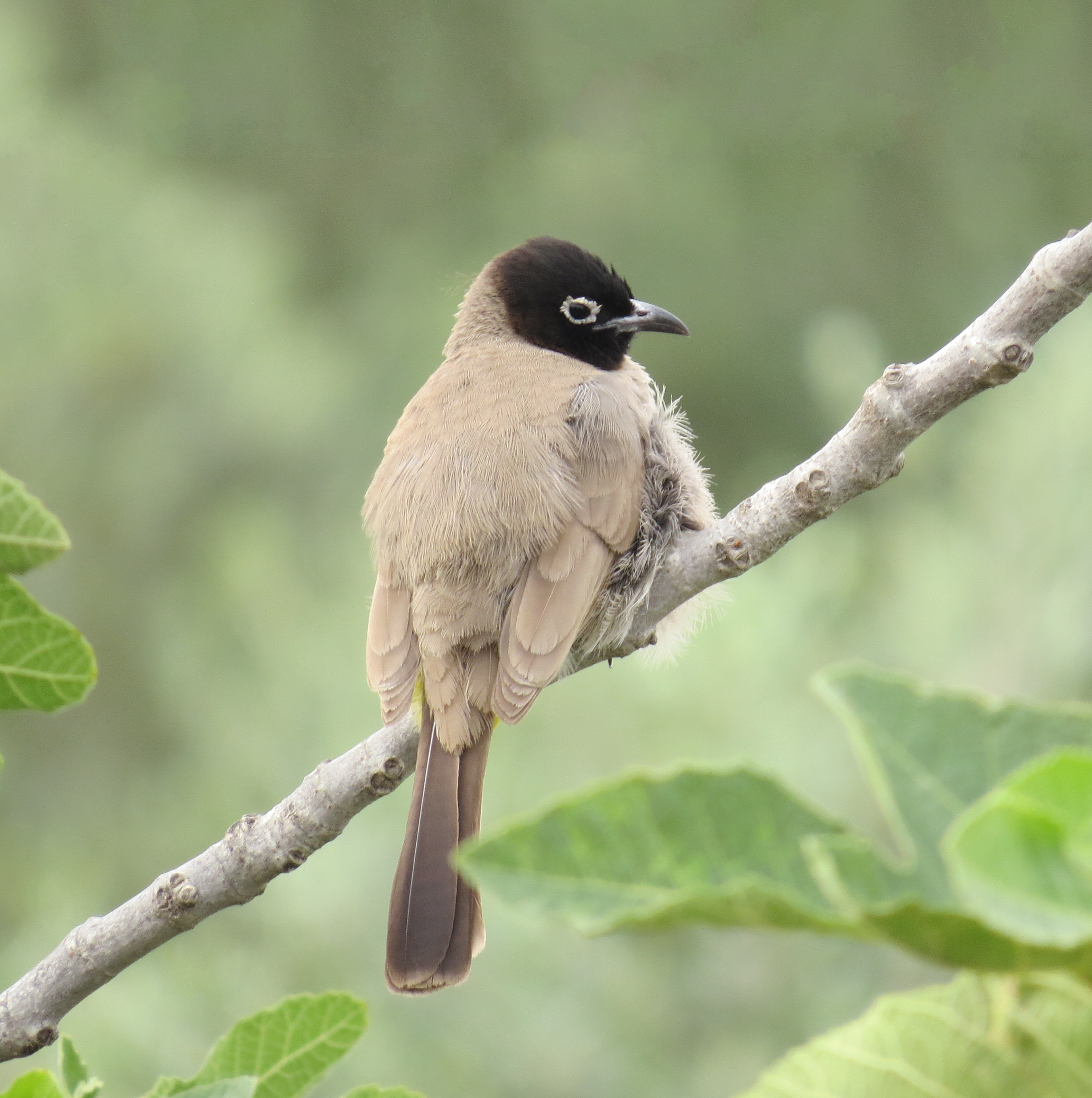 White-spectacled Bulbul Pycnonotus xanthopygos in Palestine